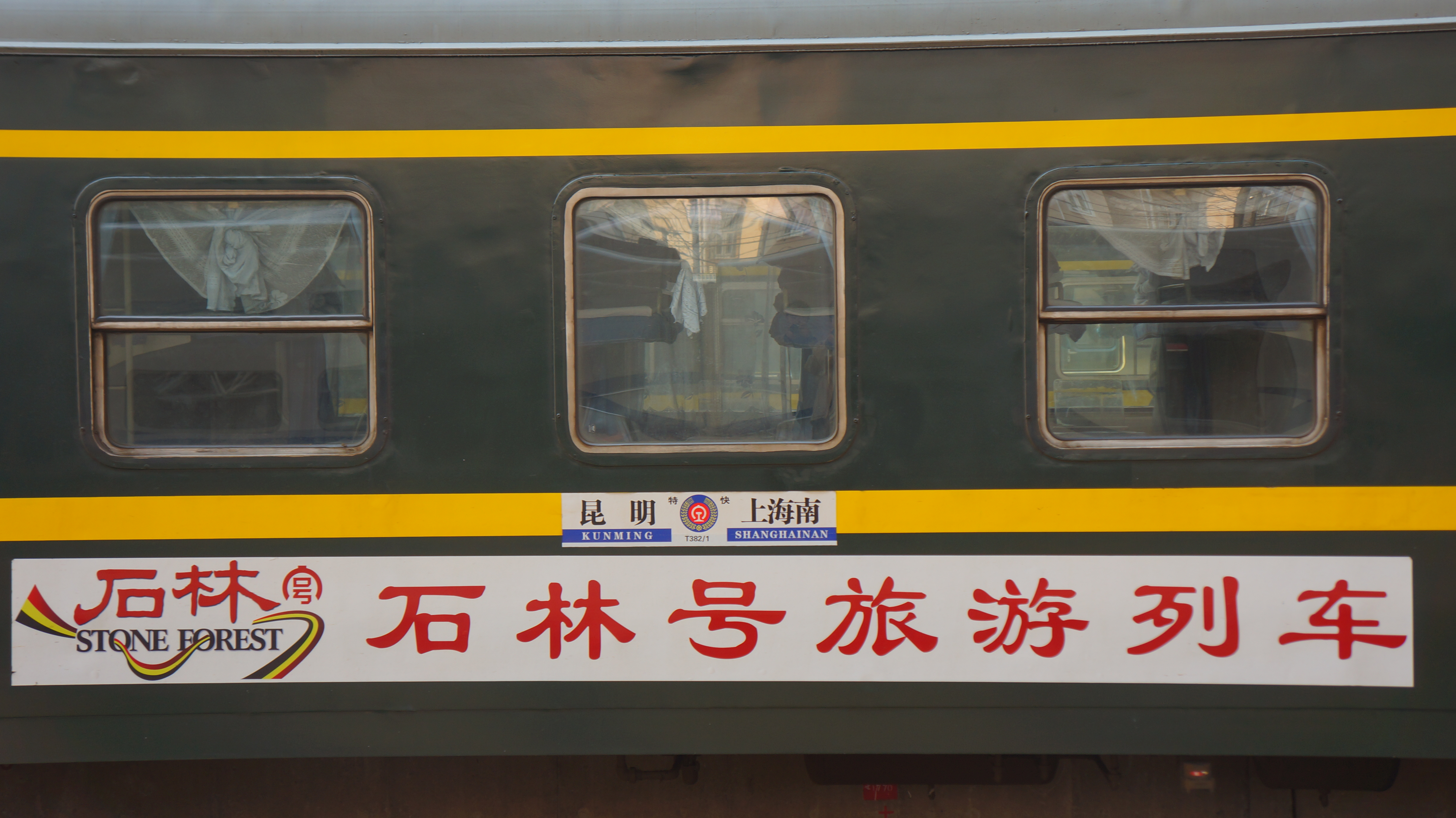 201603 Direction Board of T381 2